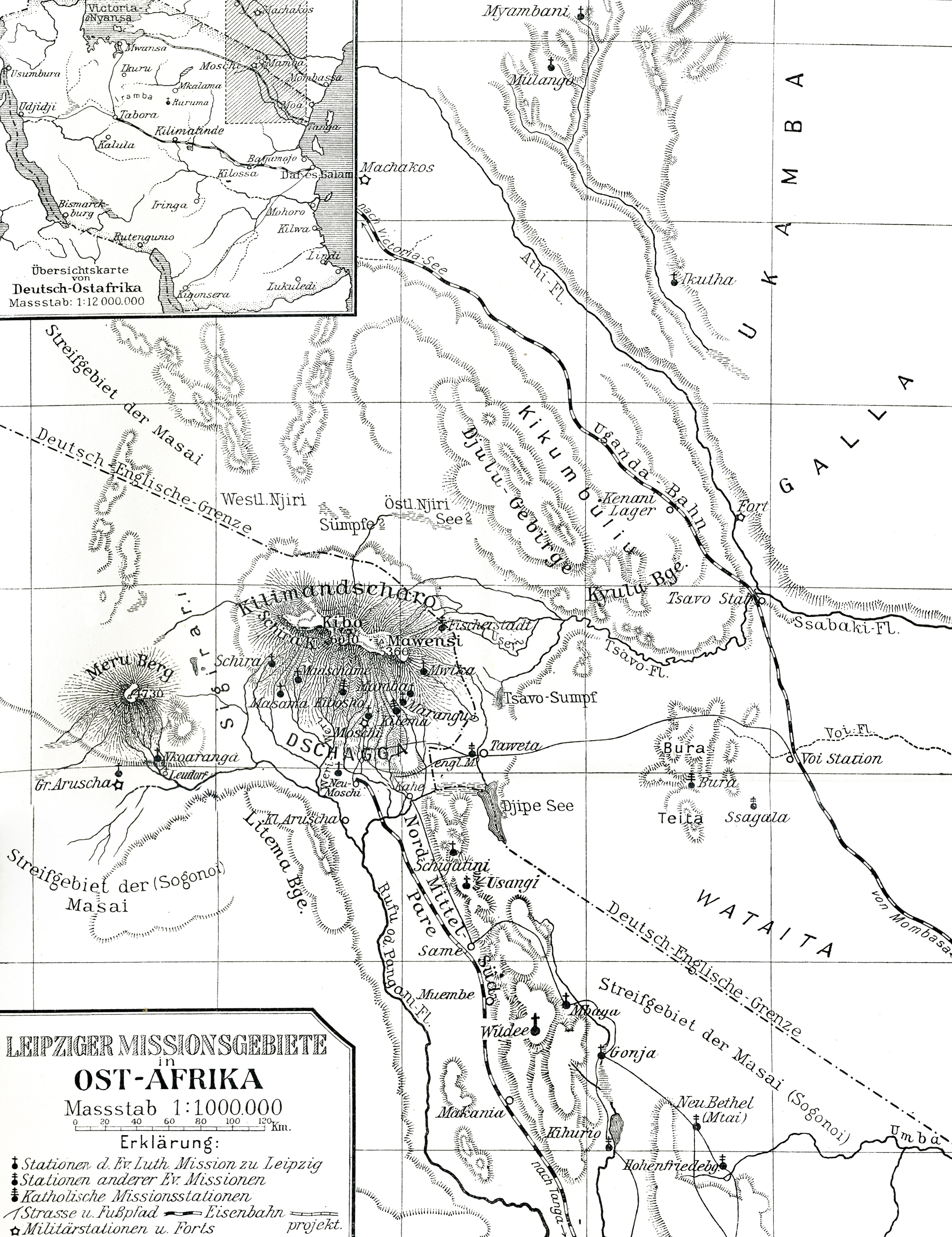 Field of work by the Missionary society "Evangelisch-lutherisches Missionswerk Leipzig" 1914 in East Africa (now Tanzania).